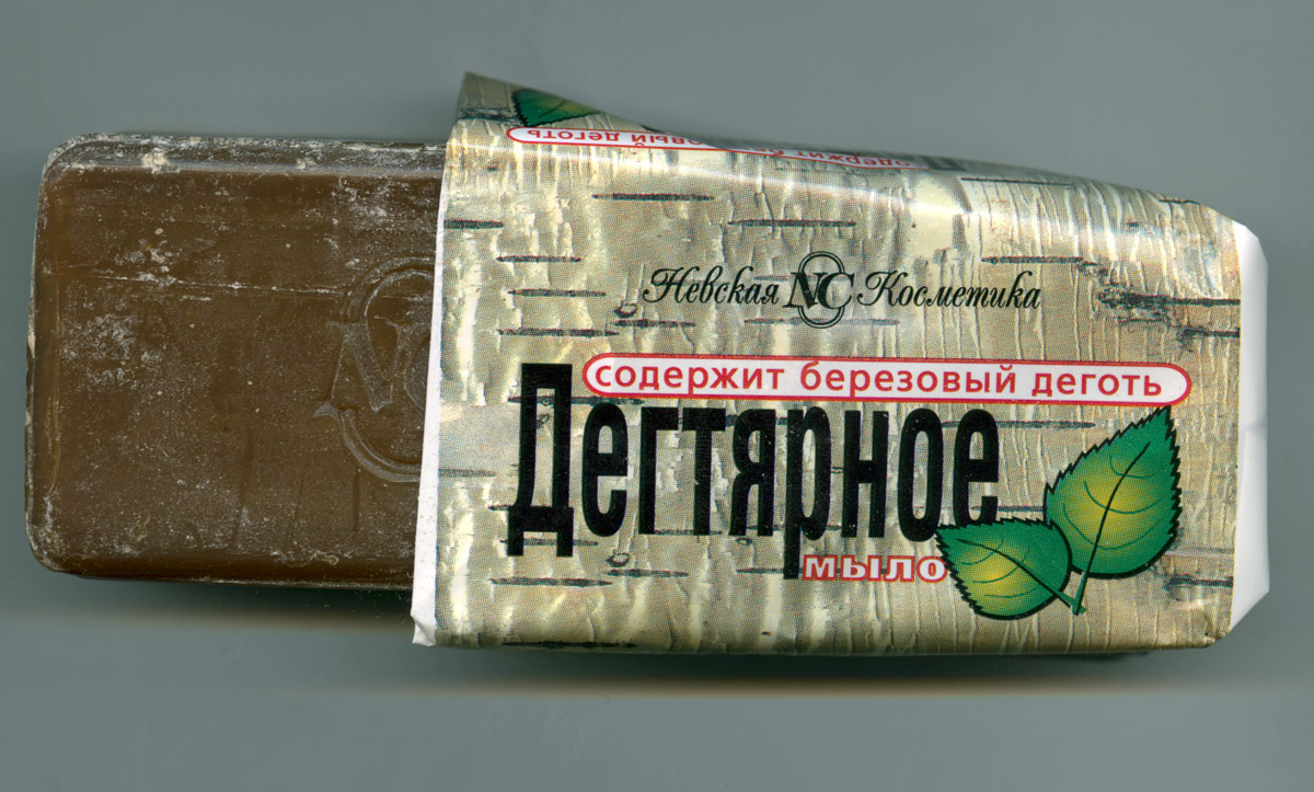 Cosmetic soap with birch tar